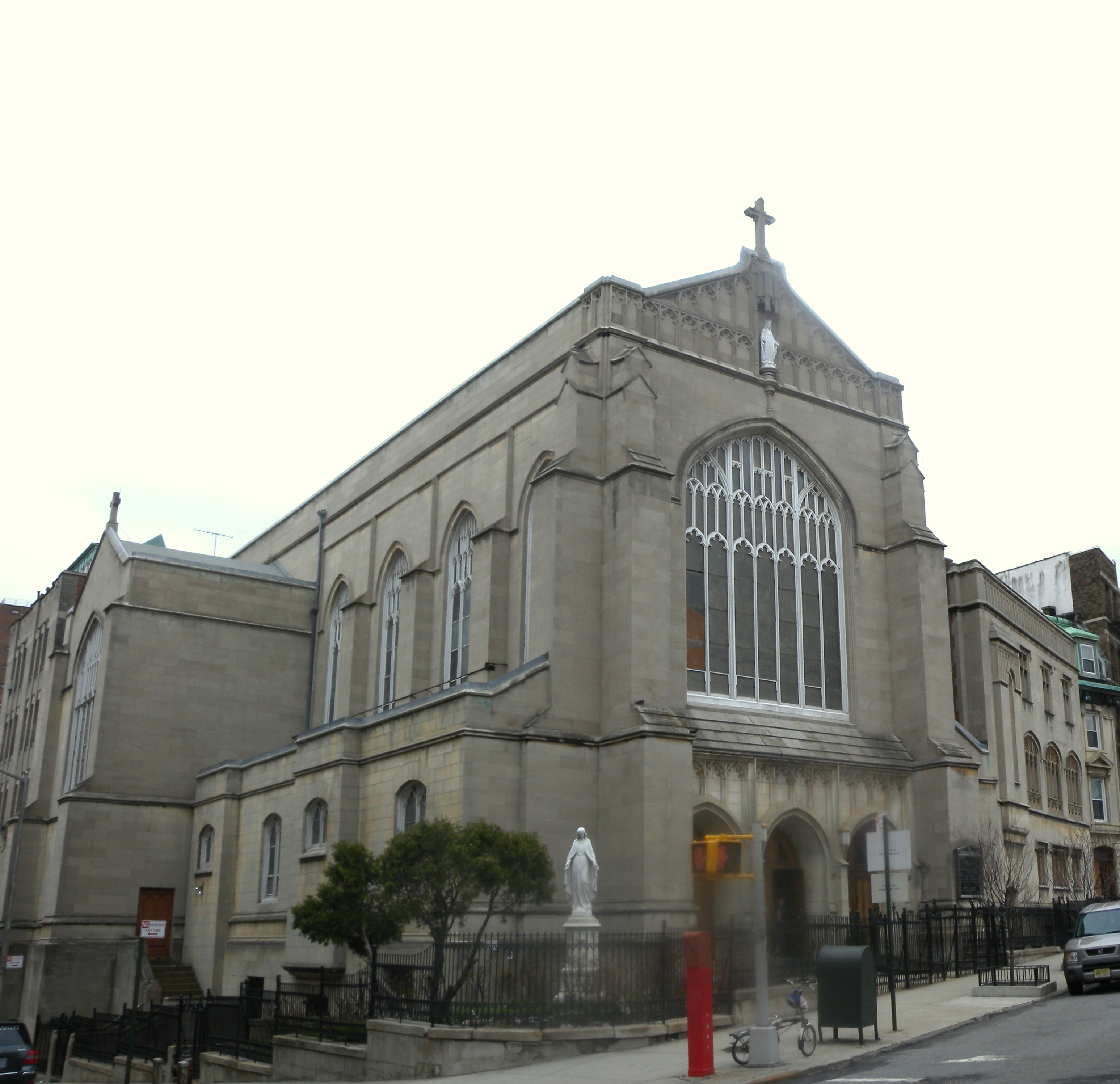 Looking northwest across Convent Avenue at Church of the Annunication on a cloudy day. Location in EXIF came from camera's GPS, uncorrected before upload and not read by conversion bot.